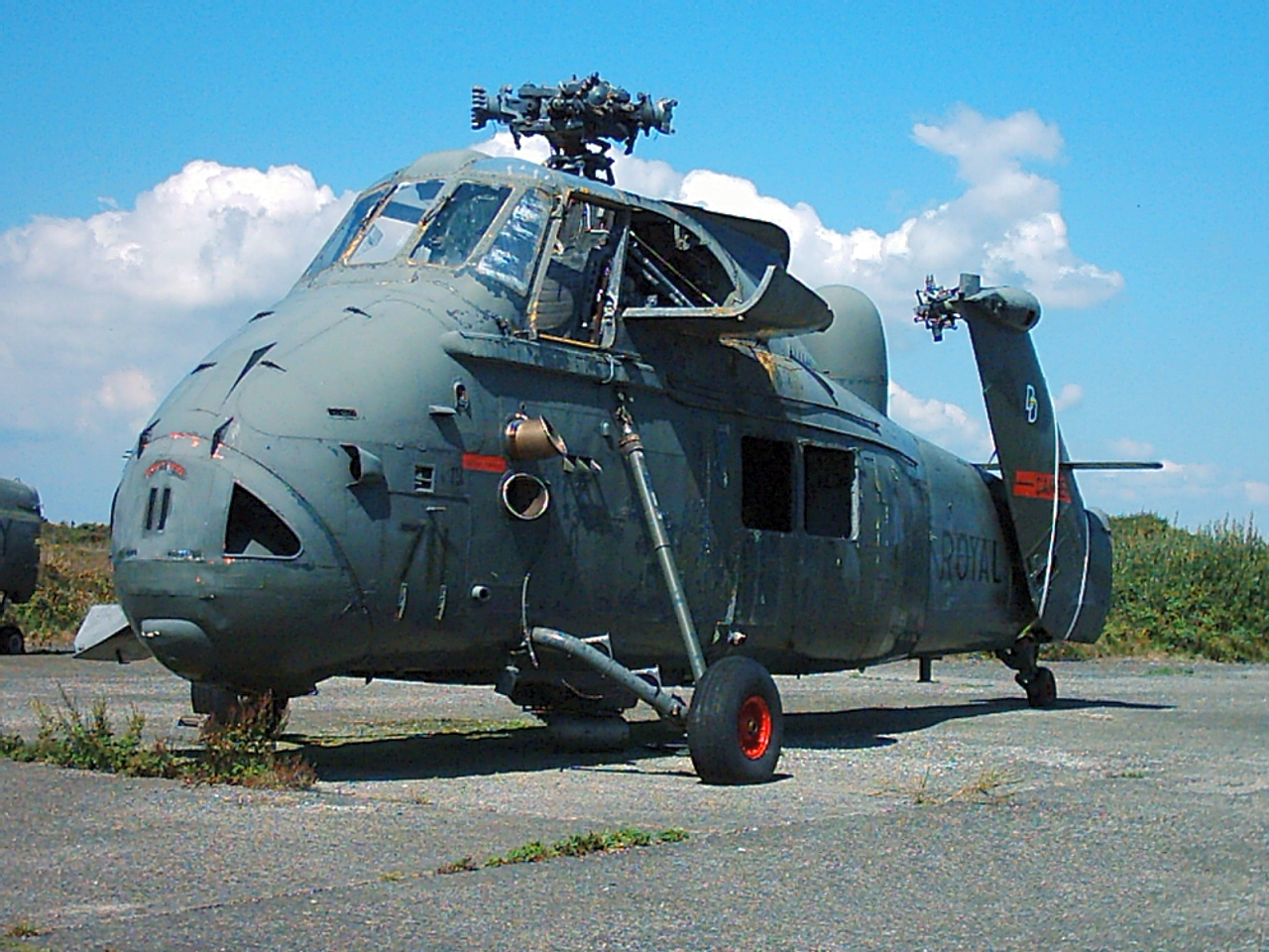 Taken myself on date shown at Predannack.